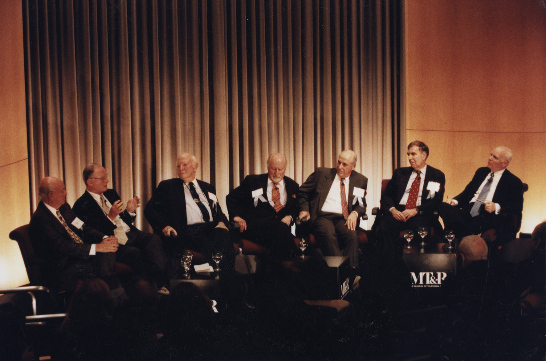 Panel discussing the first use of a satellite to distribute cable television programming, the 1975 "Thrilla in Manila" Ali-Frazier boxing match on HBO. Left to right, Monty Rifkin, Jack Cole, Hubert Schlafly, Sid Topol, Bob Rosencrans, Gerry Levin, Brian Lamb. Event sponsored by The Cable Center and held at the Museum of Television & Radio, Beverly Hills, Calif.